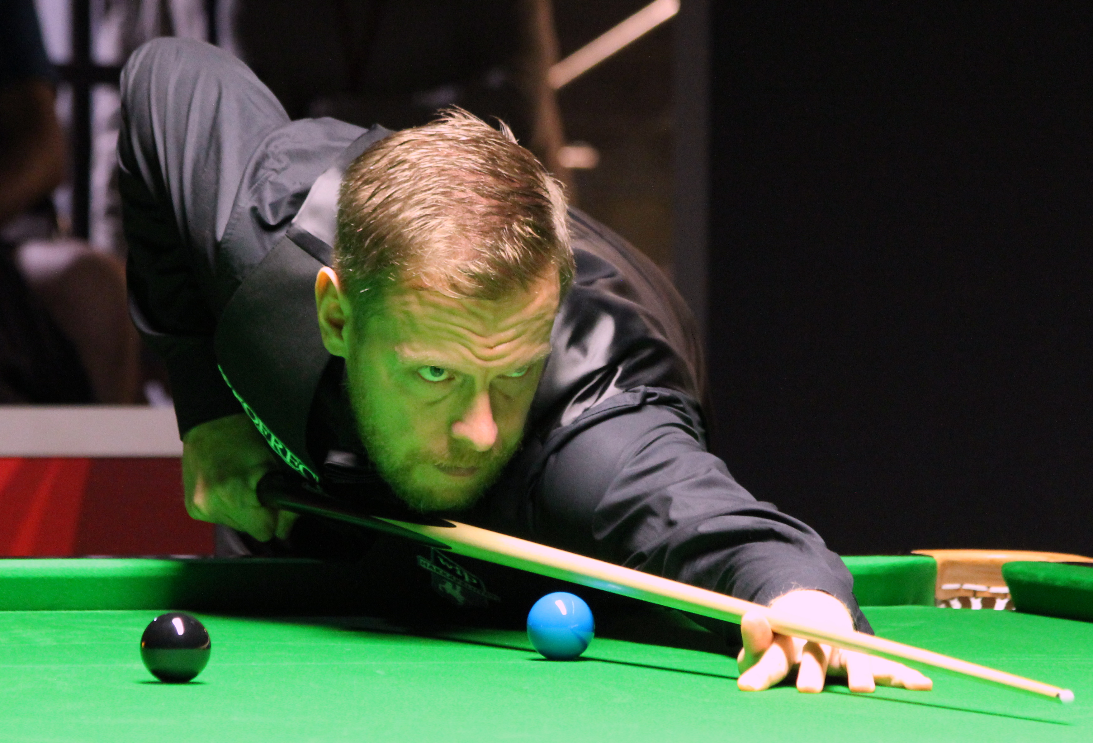 Robin Hull at the Paul Hunter Classic 2017